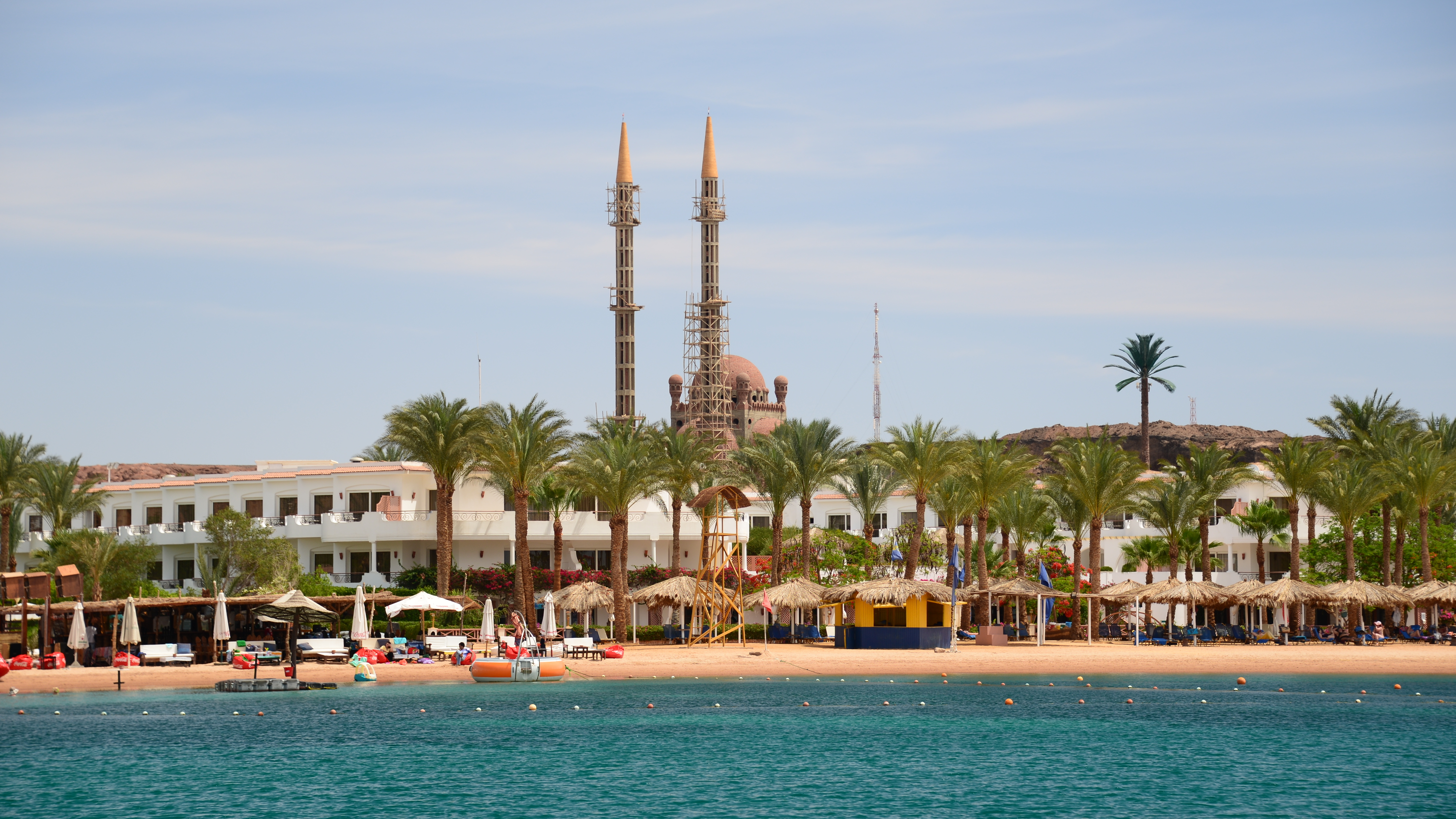 Mohammed Al Yamani, Qesm Sharm Ash Sheikh, South Sinai Governorate, Egypt